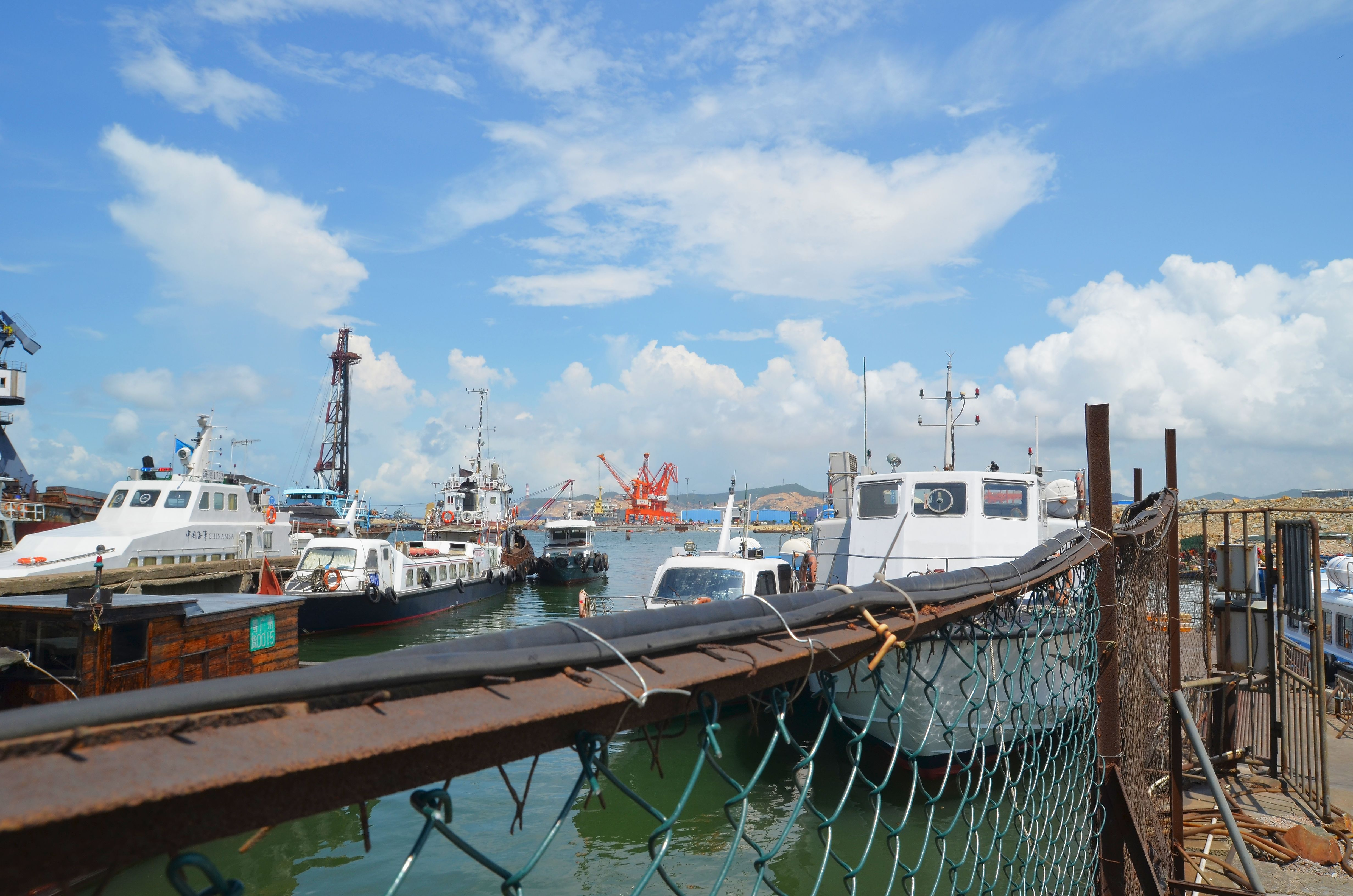 Zhuhai harbour on Gaolan Island, with transit to Hebao Island.